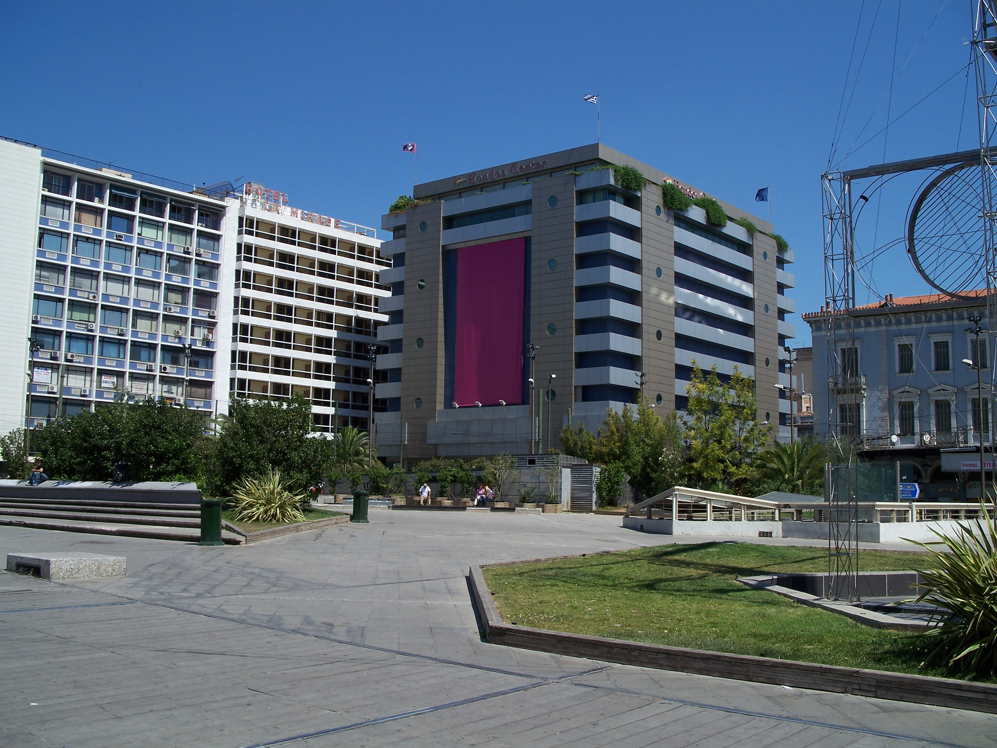 NW view of Omonoia (Ομόνοια), central square of Athens.